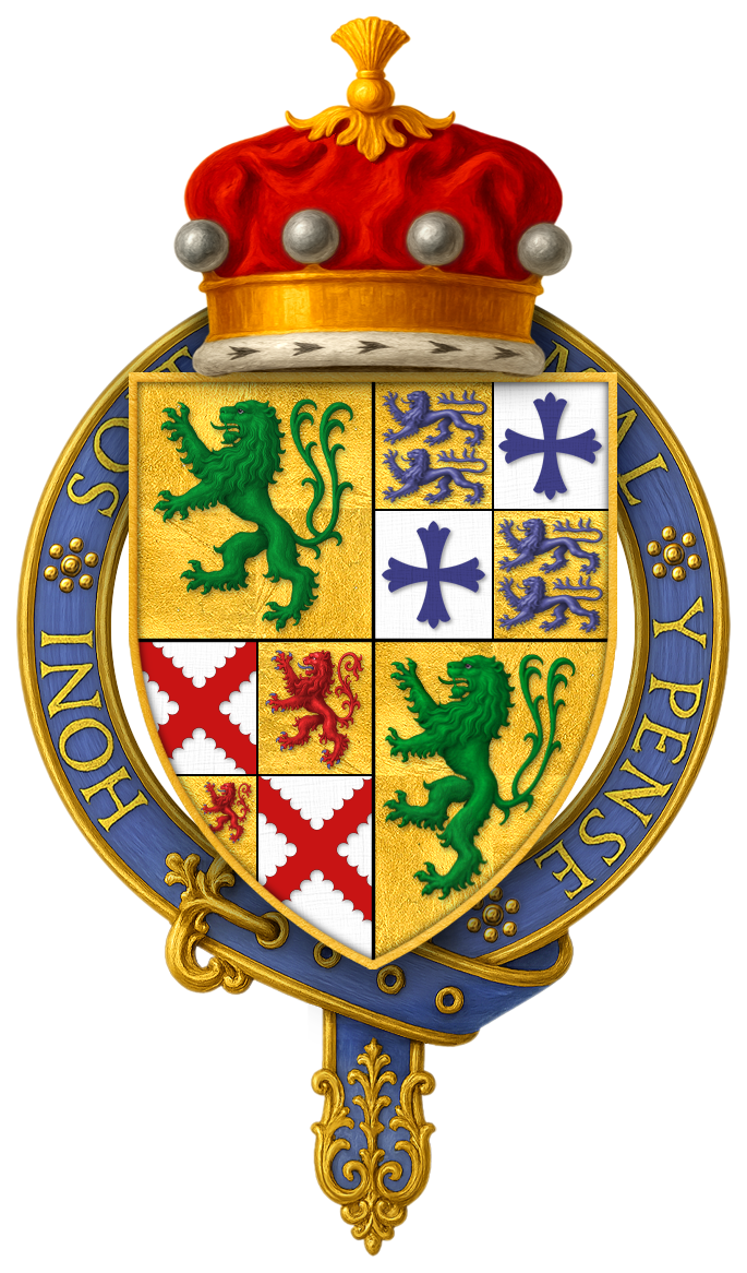 Coat of arms of Sir Edward Sutton, 2nd Baron Dudley, KG: Quarterly – 1st and 4th grand quarters: Or a lion rampant queue fourche vert (Dudley); 2nd grand quarter: quarterly 1st & 4th: Argent two lions passant azure (...); 2nd & 3rd: Argent an eagle displayed azure (...); 3rd grand quarter: quarterly 1st & 4th: Argent a saltire engrailed gules (Tibetot, alias Tiptoft); 2nd & 3rd: Or a lion gules (Cherleton). Reference: Edward Sutton, 2nd Baron Dudley, with coat of arms, from the Wriothesley Heraldic Collections, Vol.I, by Sir Thomas Wriothesley, c.1531.